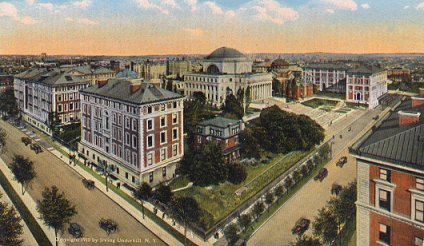 Columbia University, New York City, scanned from en:1915 postcard. From left to right: Mathematics Hall, Lewisohn Hall, Earl Hall, Low Memorial Library, St. Paul's Chapel, Buell Hall, Philosophy Hall, Kent Hall.